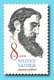 US stamp honoring Sidney Lanier